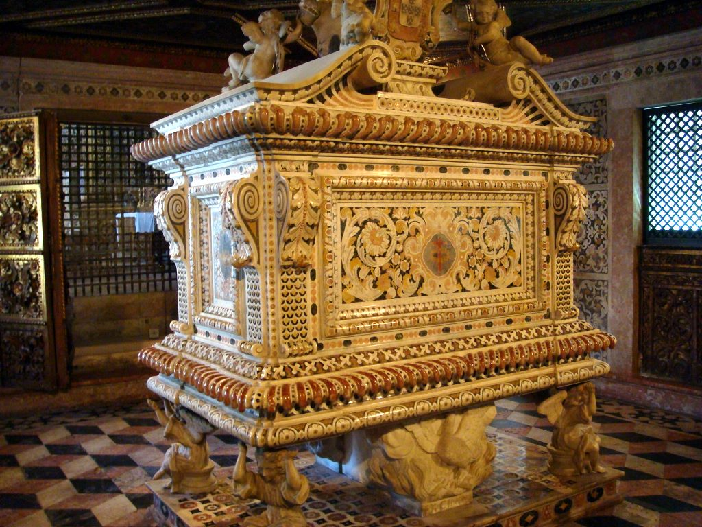 Tomb of blessed Joan of Portugal, in the Convento de Jesús at Aveiro, Portugal. Marble work of 17th cent.